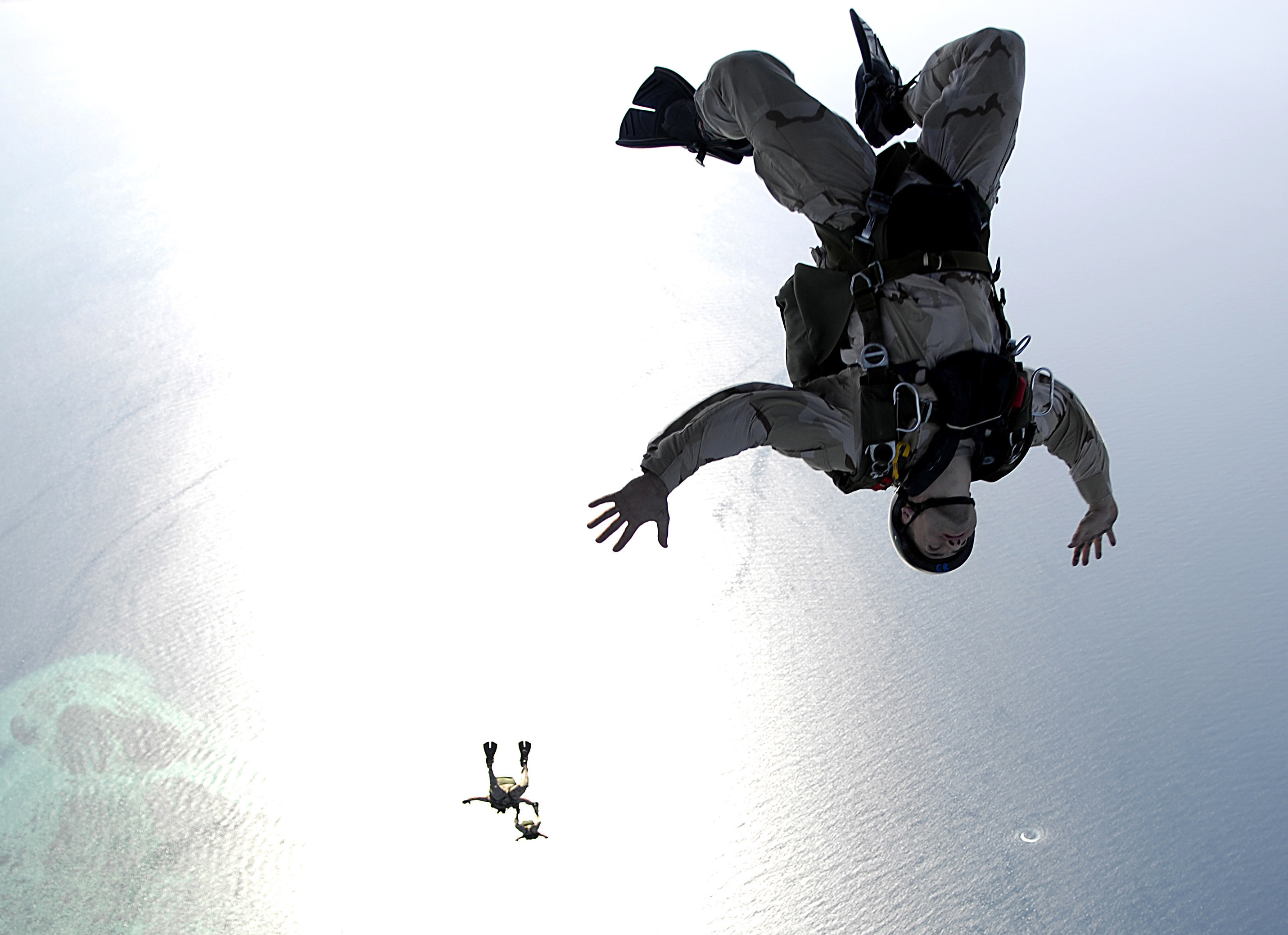 U.S. Air Force pararescuemen conduct a parachute training jump from an HC-130 aircraft over Djibouti, Africa, March 13, 2008. The airmen are assigned to the 38th Rescue Squadron from Moody Air Force Base, Ga.